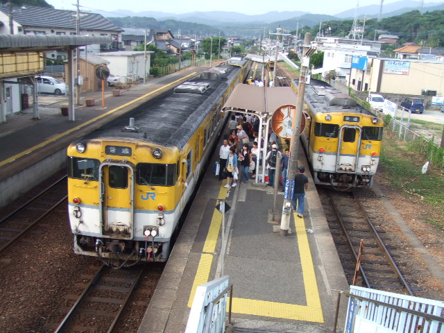 Platforms at Kogushi Station